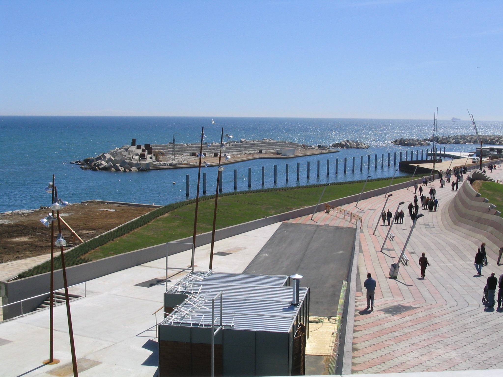 2004 Universal Forum of Cultures